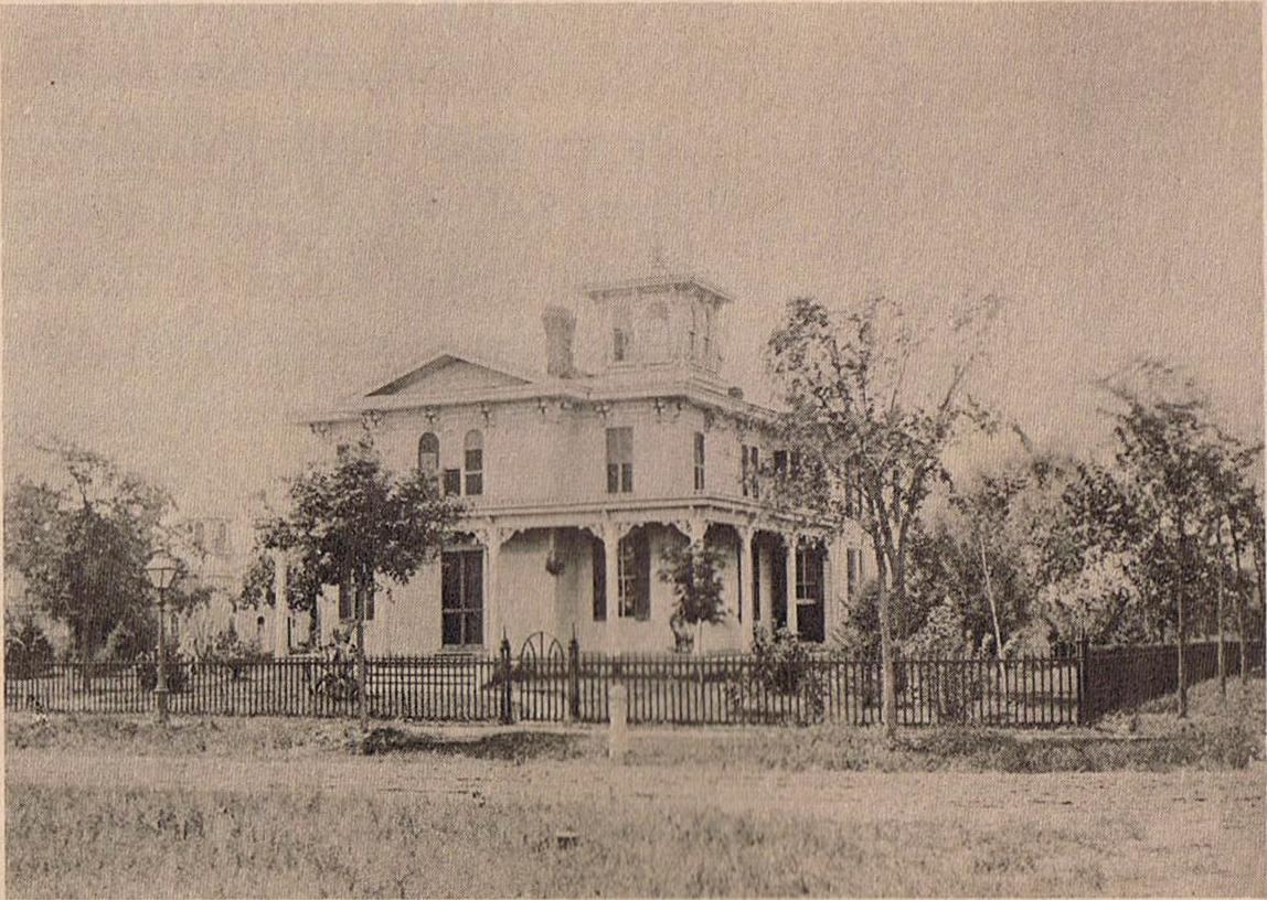 Early image of the mid-19th century Hyde Park estate of Paul Cornell (lawyer).